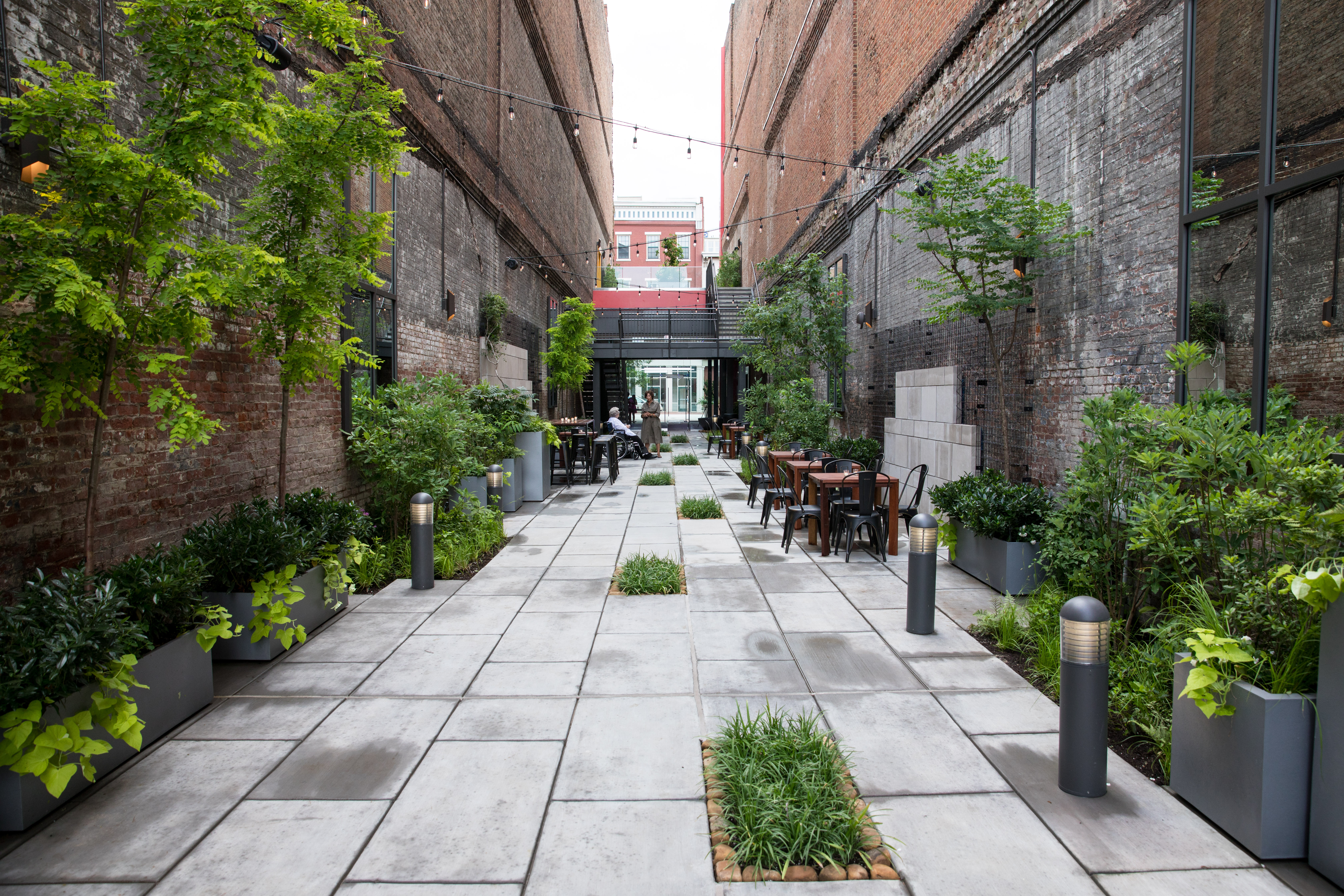 Lining the park are troughs and garden beds sown with ghost ferns, serviceberry shrubs, and other native Kentucky plants and trees.